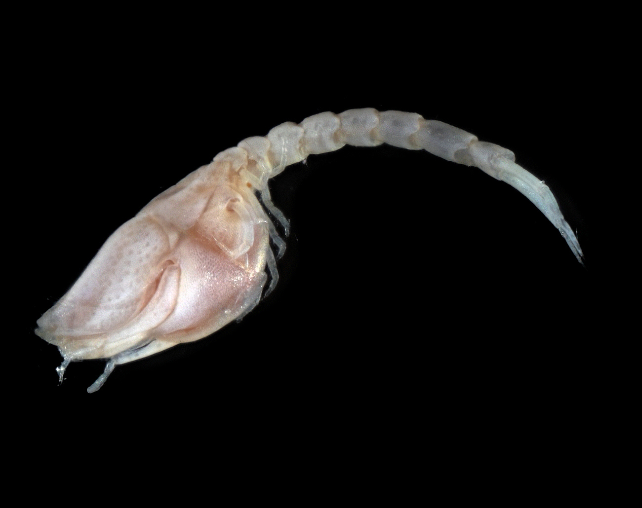 Female cumacean photographed with an Axiocam (Zeiss) camera mounted on a Zeiss Stemi C-2000 binocular microscope.This cumacean was sampled on the Belgian Continental Shelf in 1997.Length = ~4 mm.